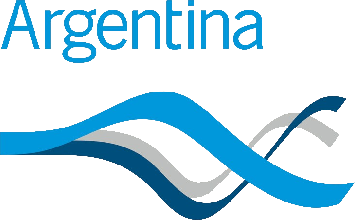 Official logo of the brand "Argentina", created to identify the nation worlwide.